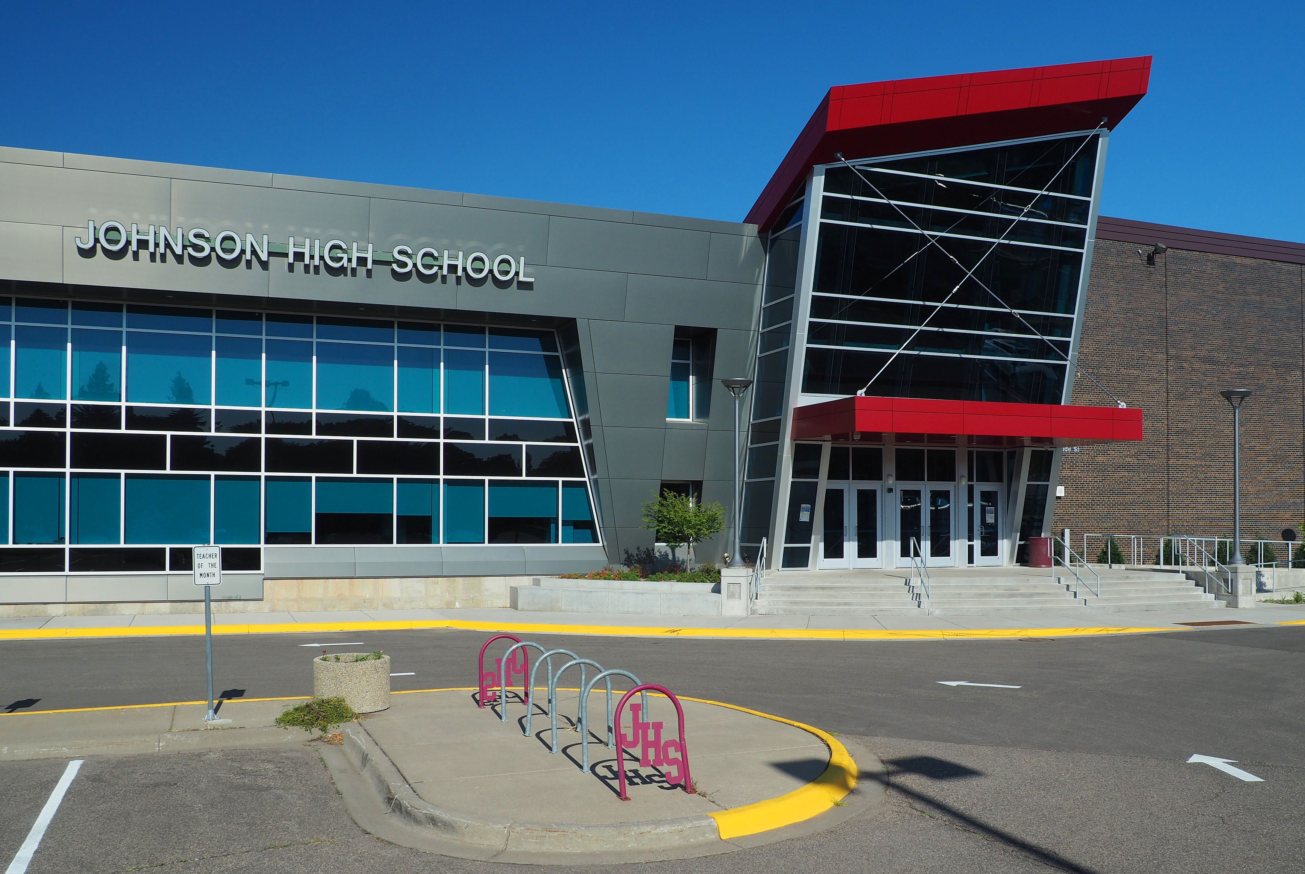 Main entrance of Johnson Senior High School following renovations in 2017, 1349 Arcade St, St Paul, Minnesota, USA. Viewed from the east-southeast.